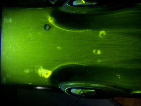 Bottom view of the Nuna 3 model (winner in 2005), tested in the windtunnel of the Low Velocity Laboratory of the Technical University Delft